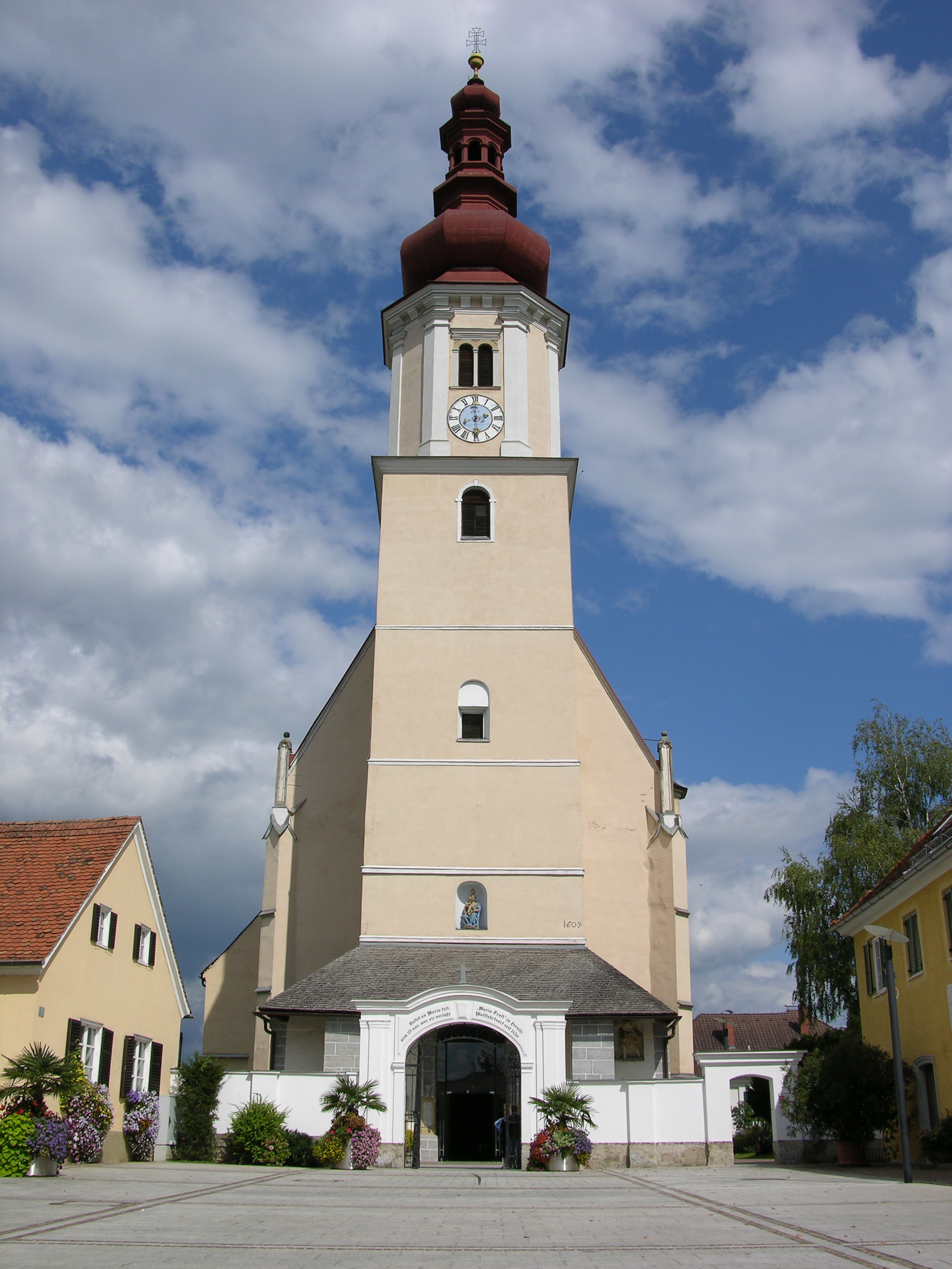 Church in Fernitz, Styria, Austria